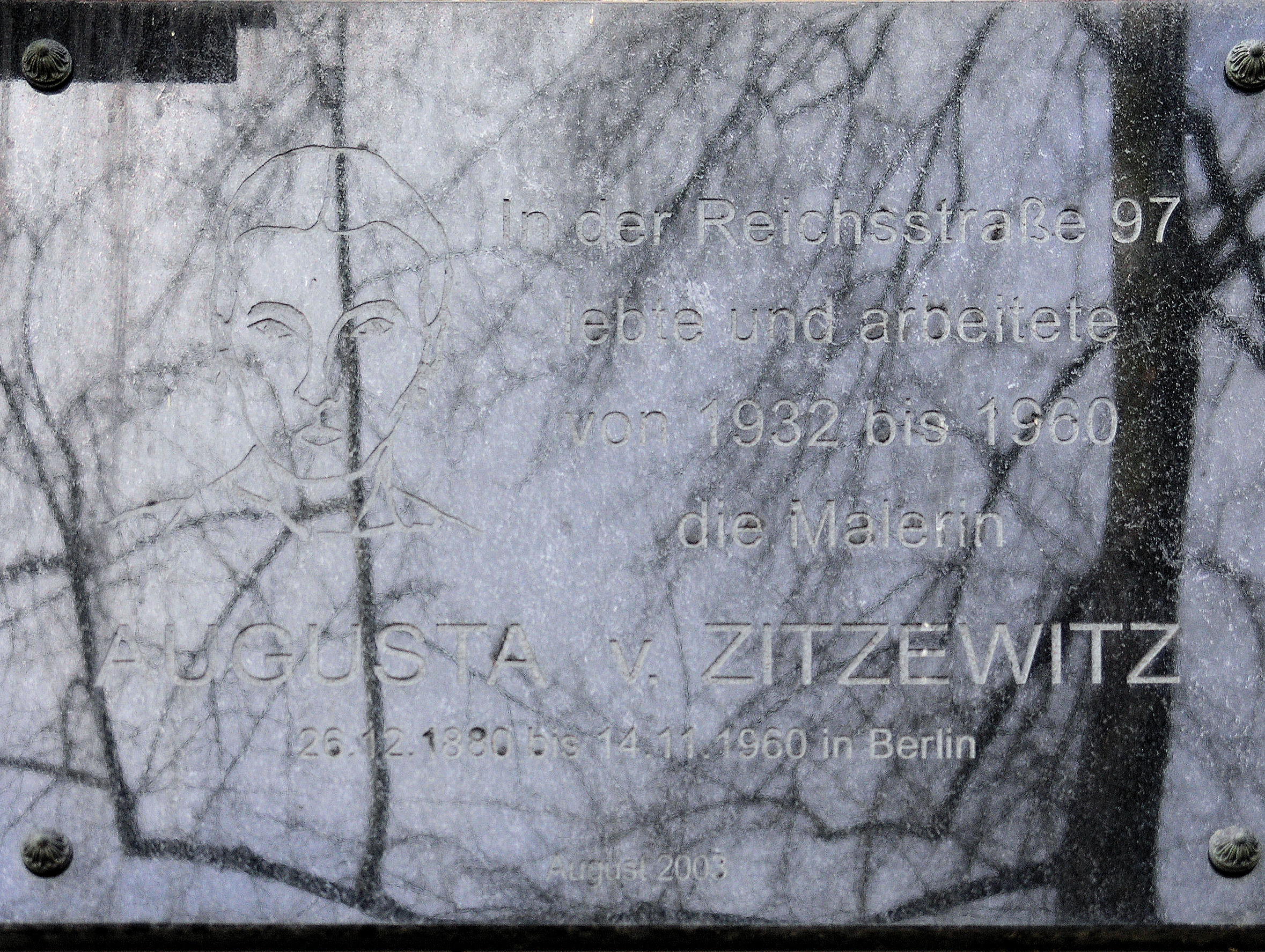 Memorial plaque, Augusta von Zitzewitz, Reichsstraße 96-97, Berlin-Westend, Germany Koordinate:52°30′43.1″N 13°16′1.9″E / 52.511972°N 13.267194°E